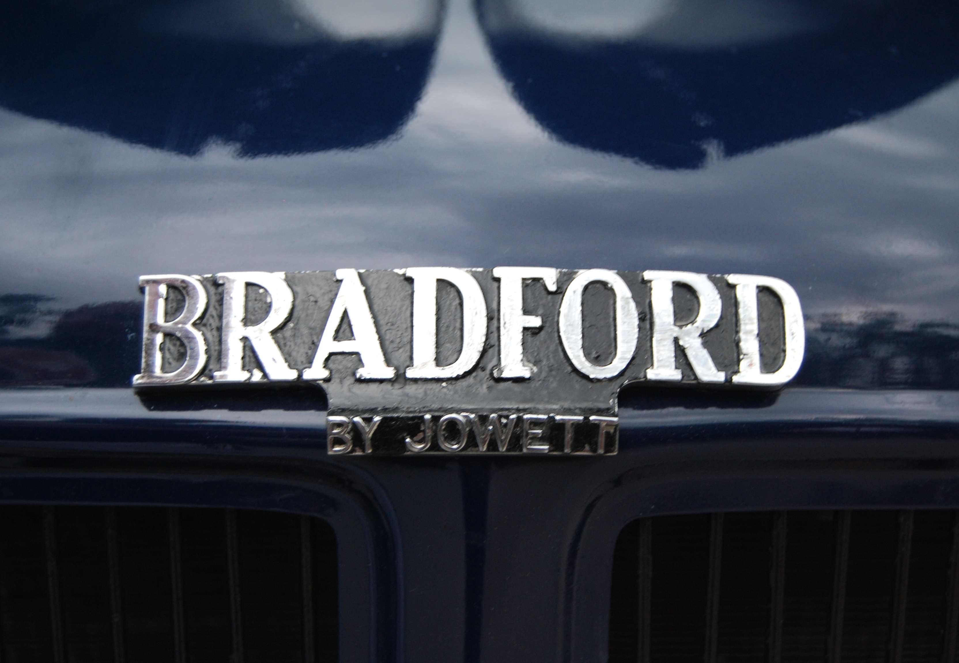 Jowett Bradford badge on van in use in Derbyshire